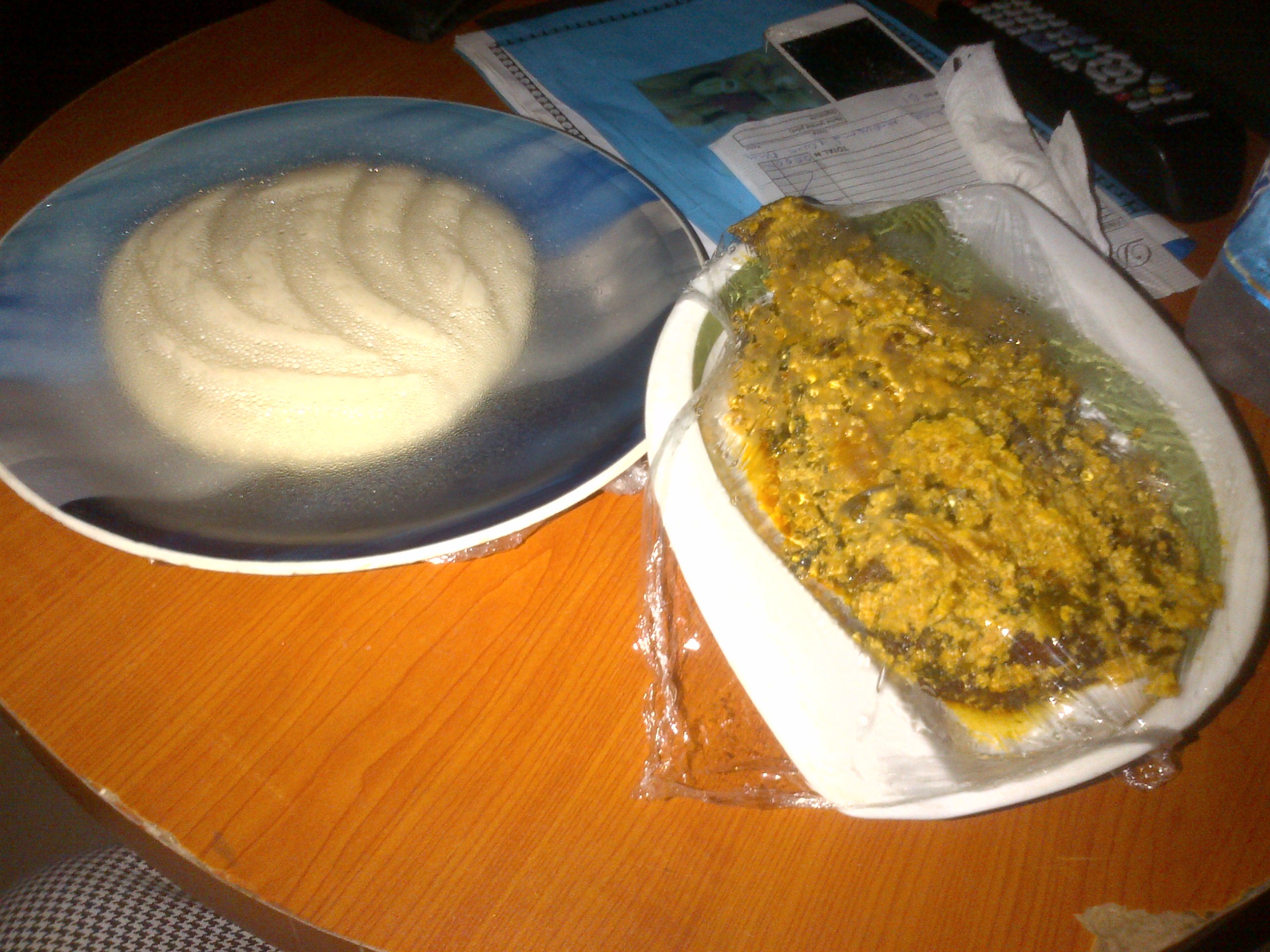 Pounded Yam and Egusi Soup served with fish This is an image of food from Nigeria